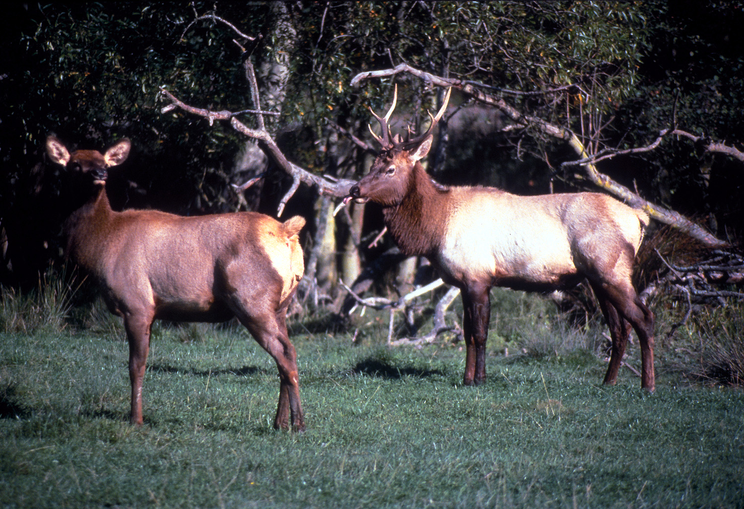 Roosevelt elk (Cervus canadensis roosevelti) near Jewell, Oregon, USA.